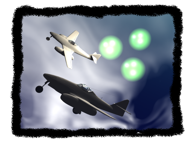 own creation